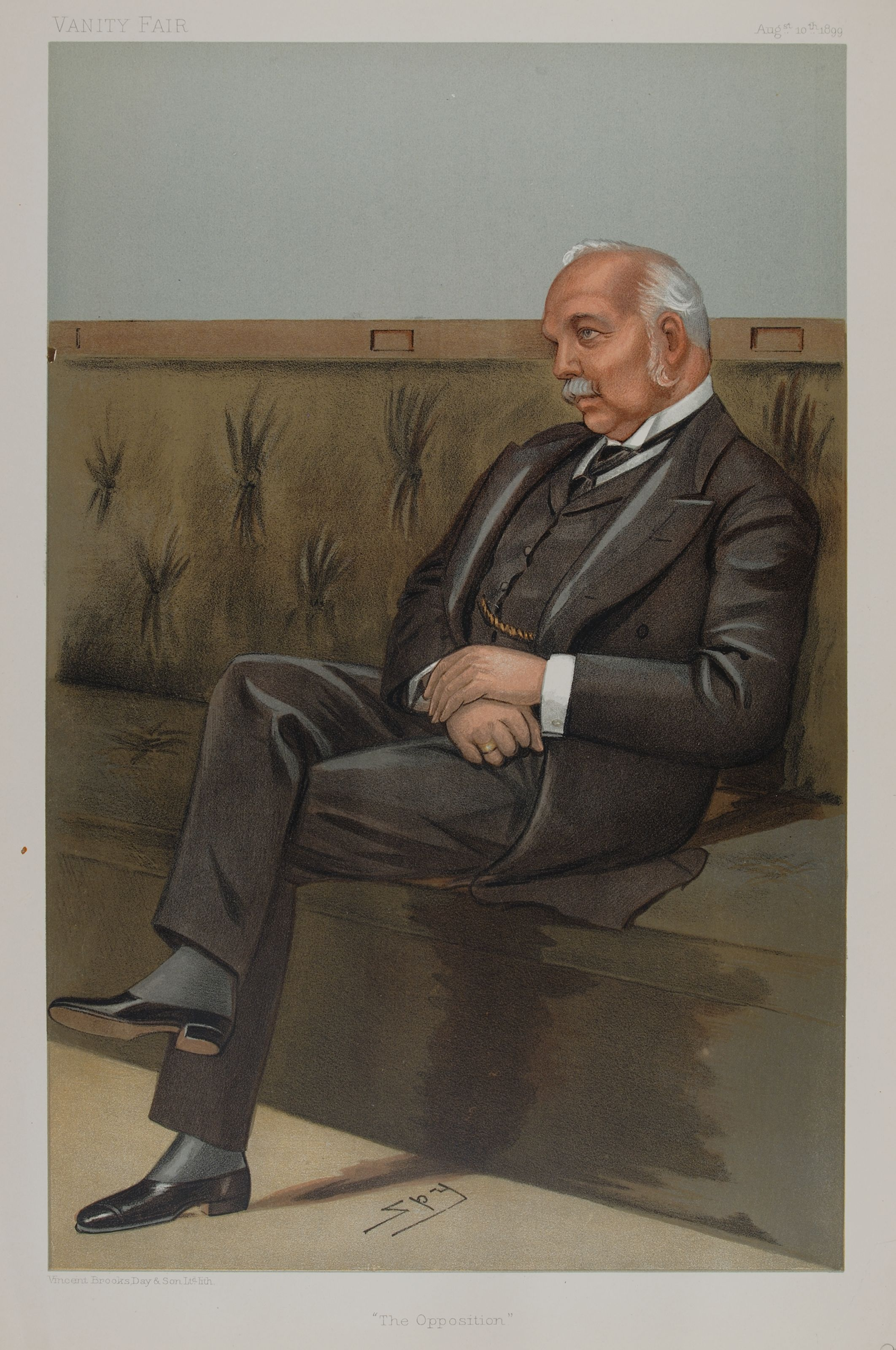 Statesmen No. 712: Caricature of Henry Campbell-Bannerman. Caption read "The Opposition".